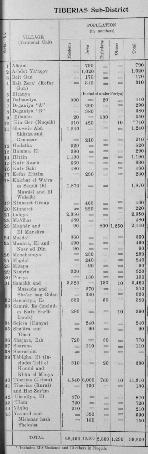 1945 Palestine Mandate Village Statistics